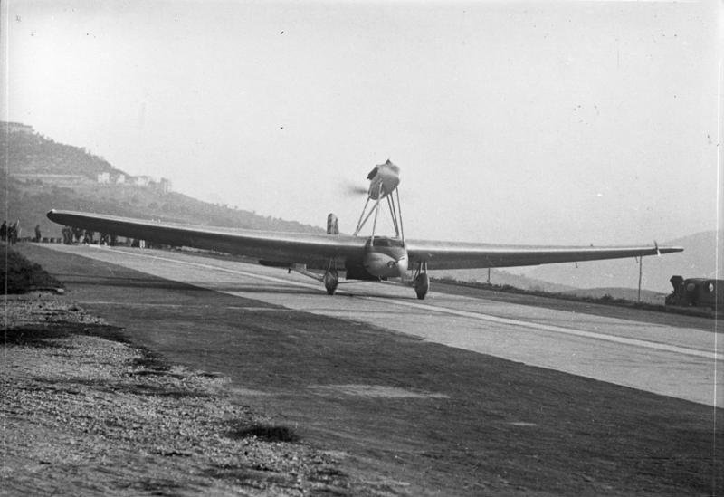 450 km in der Stunde! Ein neuartiger italienischer Fluzeugtyp, welcher nach Art der italienischen Schneiderpokal-Flugzeuge als Langflugzeug bei Versuchsflügen eine Stundengeschwindigkeit von 450 km erreicht. Long range aircraft S.M.64 A close-up of the record-breaking long-range aircraft Savoia-Marchetti S.64 on its landing strip at Montecellio (near the town of Guinonea, Italy). Note that the strip is built on a slope. When starting, the aircraft rolled downhill for an extra push. The indicated top speed of 450 Km/h might be slightly exagerated, as the plane was primarily a long-distance record breaker who's only speed record was an average of 139 km/h over a closed 5000km course. The German text reads:An Italian novel type of Aircraft, which reminiscent of the Italian Schneider trophy planes, as a landplane during trials reached a speed of 450 Km an hour.